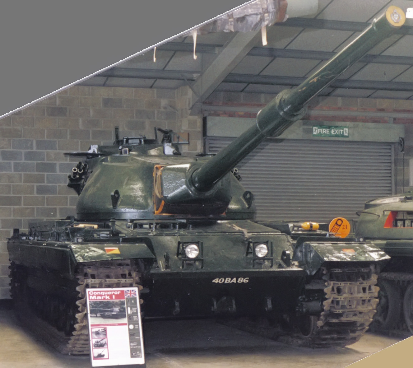 Conqueror Mark 1 tank in Bovington Tank Museum